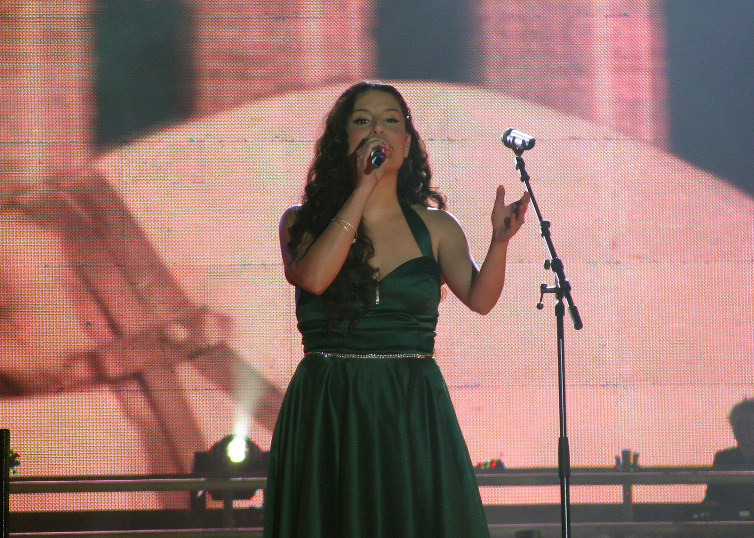 Miri Mesika at Tel Aviv 100th anniversary celebration